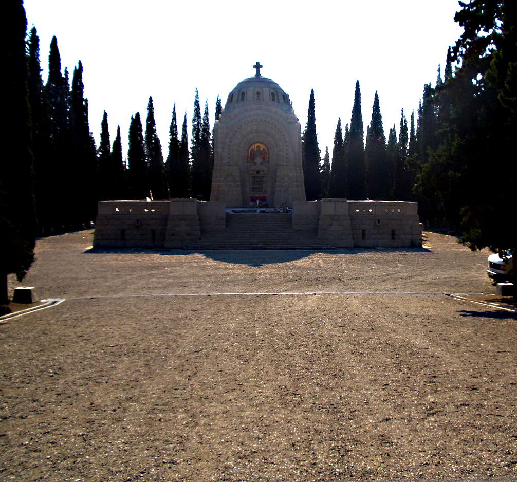 Allied Memorial Park of Zeitenlik in Salonica. The Serbian Cenotaph